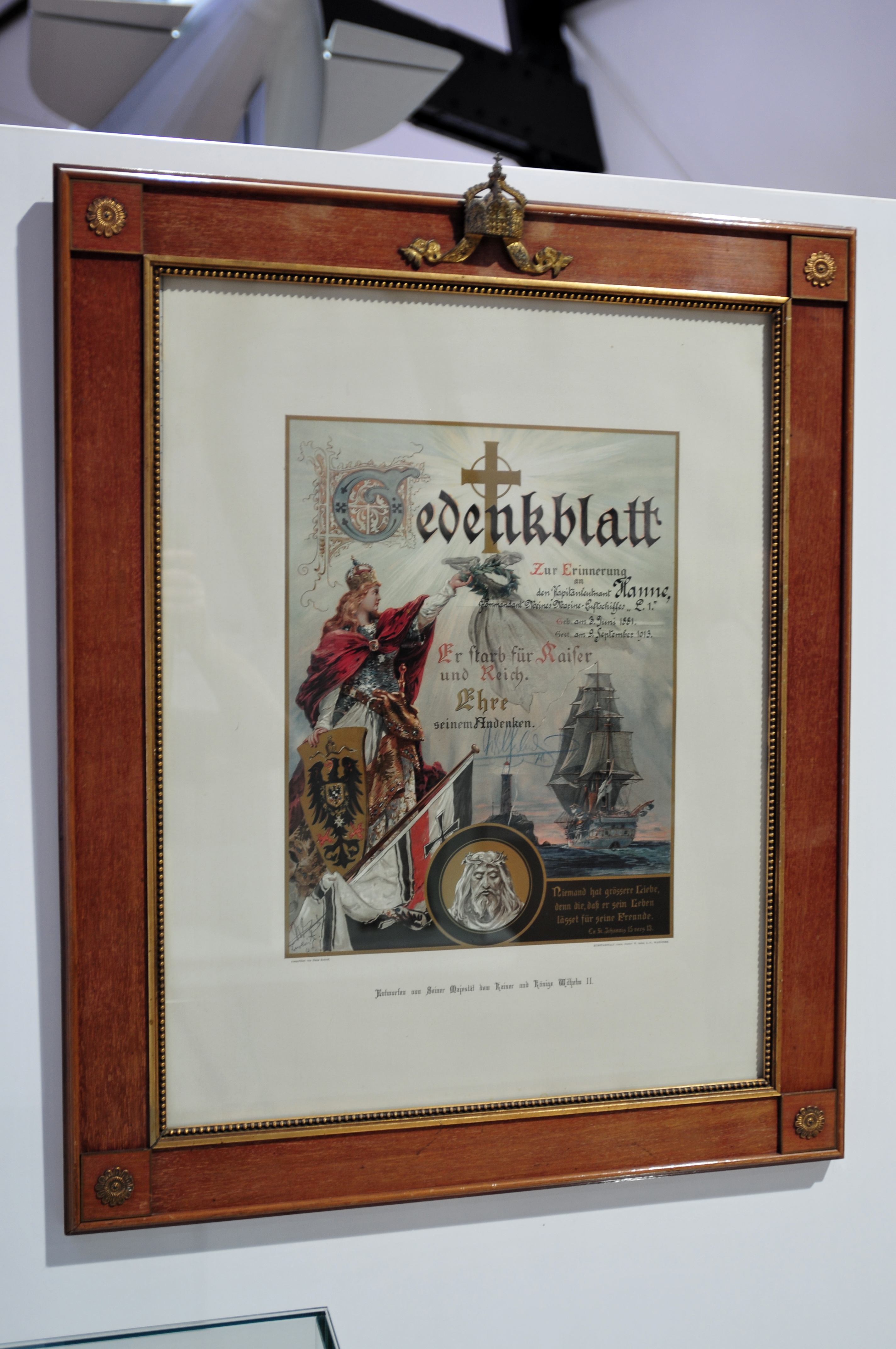 Photograph taken at the Aeronauticum in Nordholz, district of Cuxhaven, Lower Saxony (Germany)